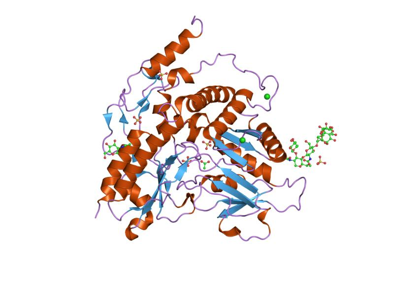 Cartoon representation of the molecular structure of protein registered with 2hor code.